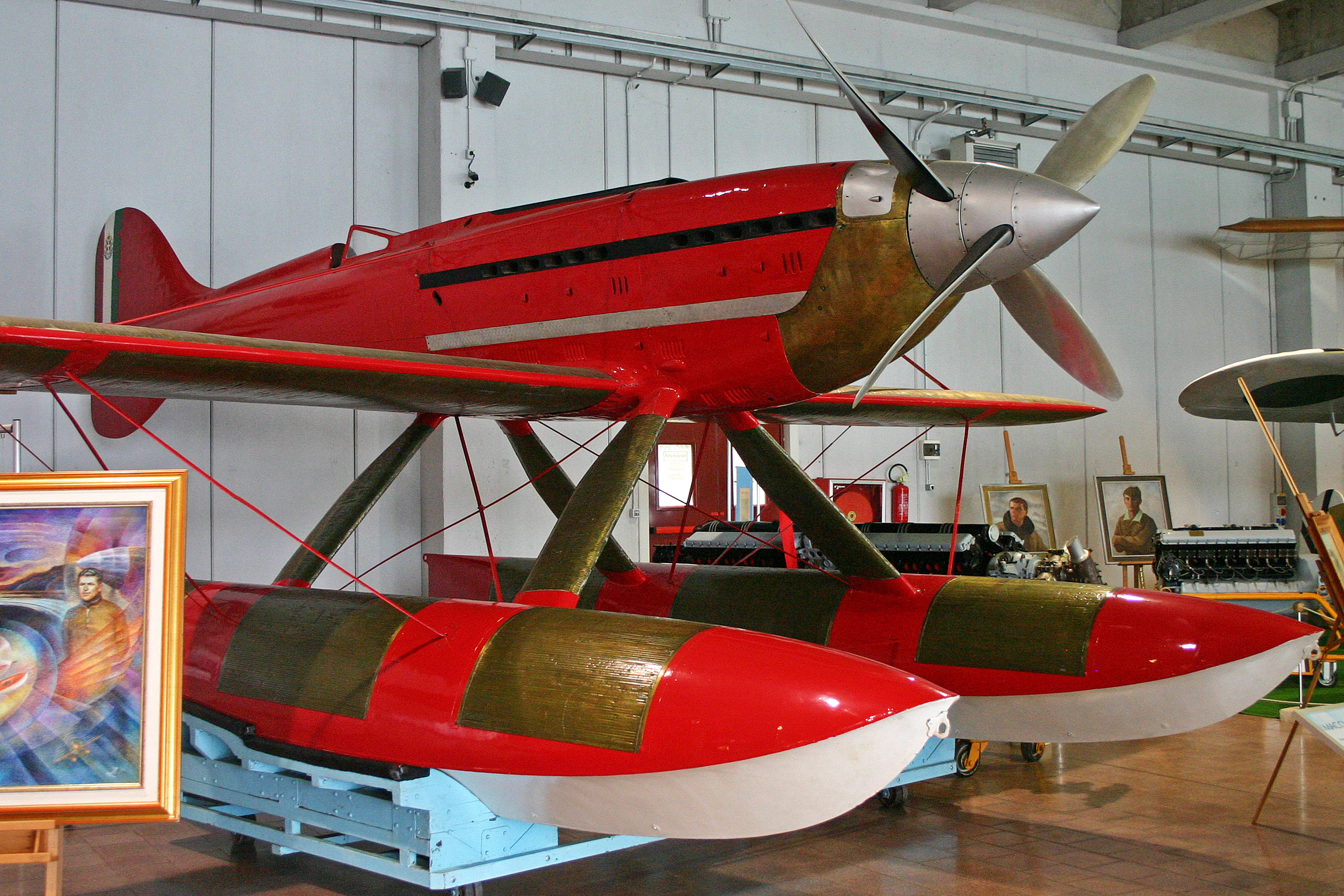 Displayed in Hangar VELO. Current holder of the World Speed Record for a Seaplane, set in 1934 at 443mph.